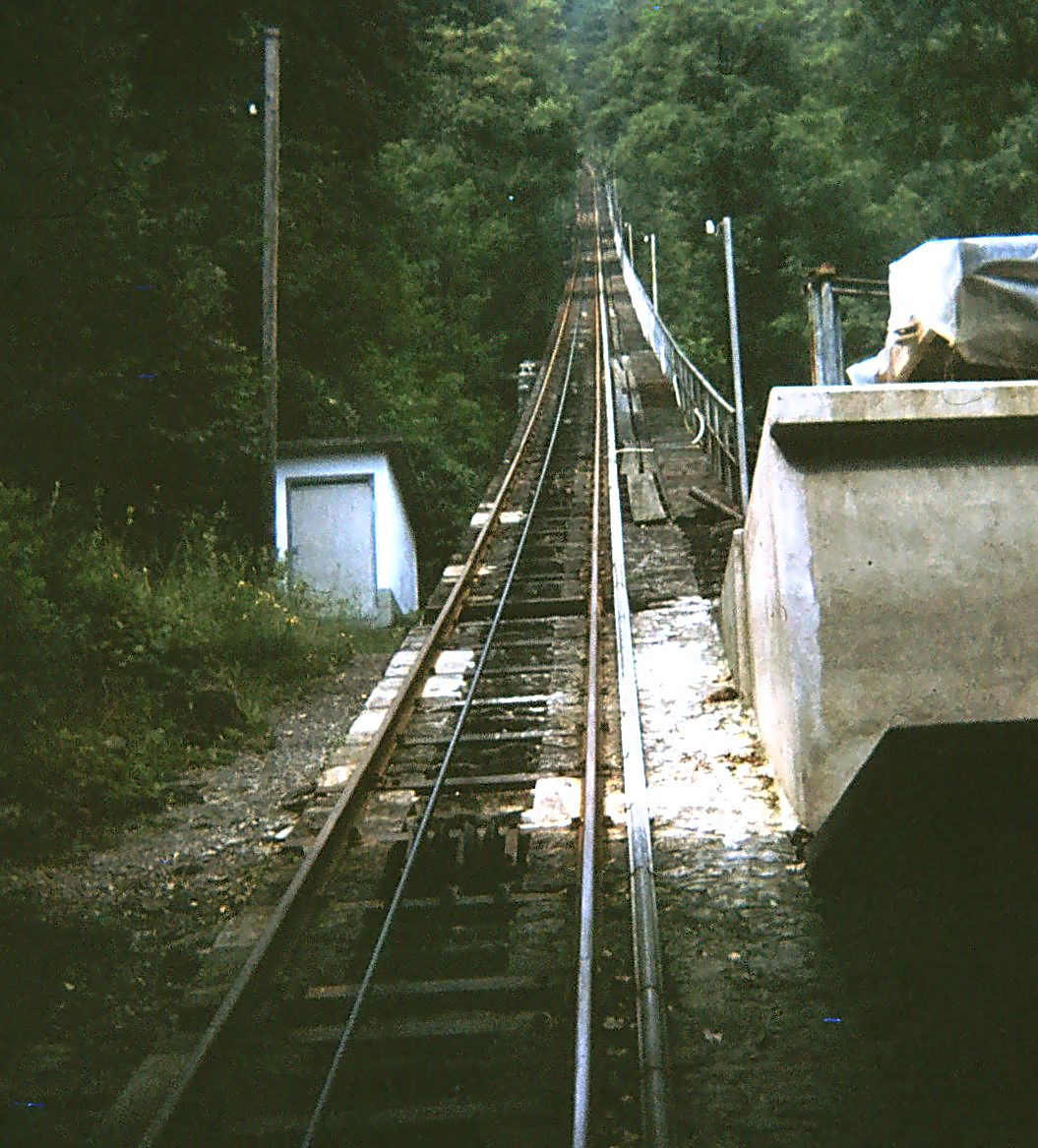 Before departure from the lower station at the Harderbahn, Interlaken, Switzerland. August 1977.